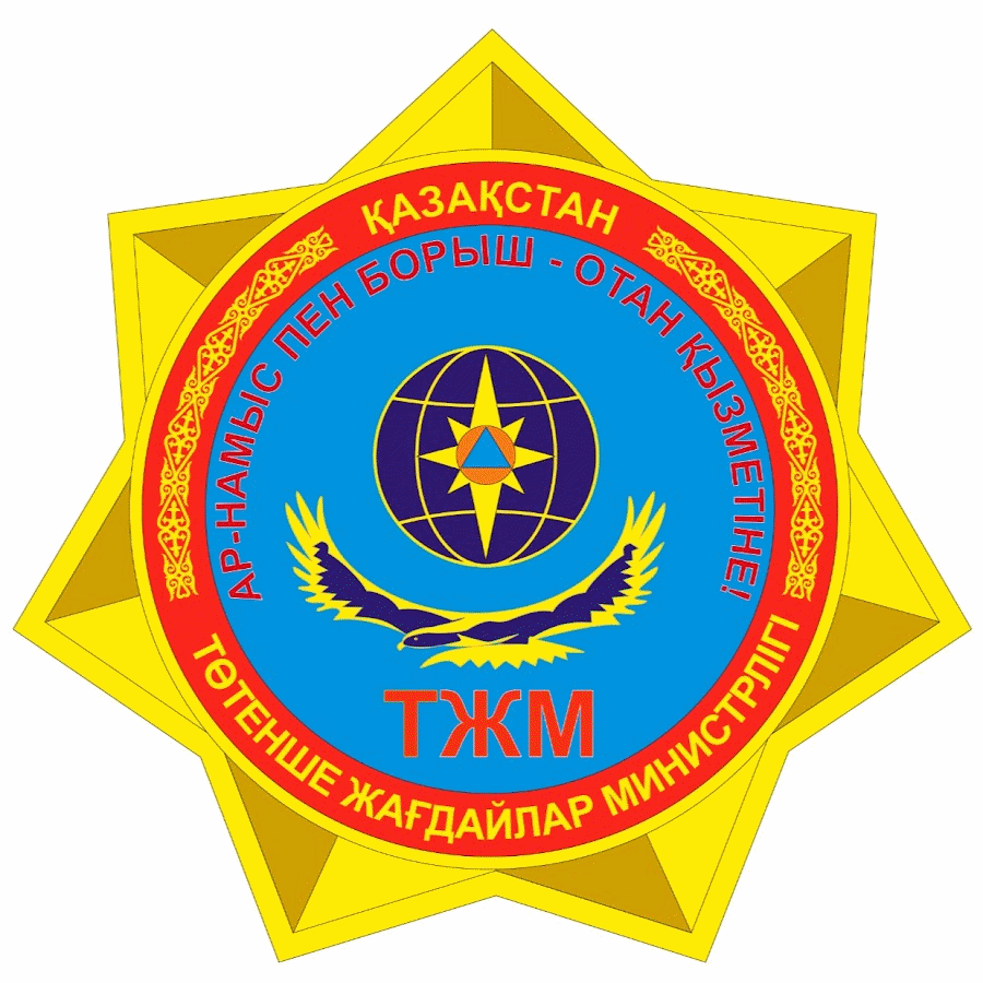 Emblem of the Ministry of Emergency Measures of Republic Kazakhstan